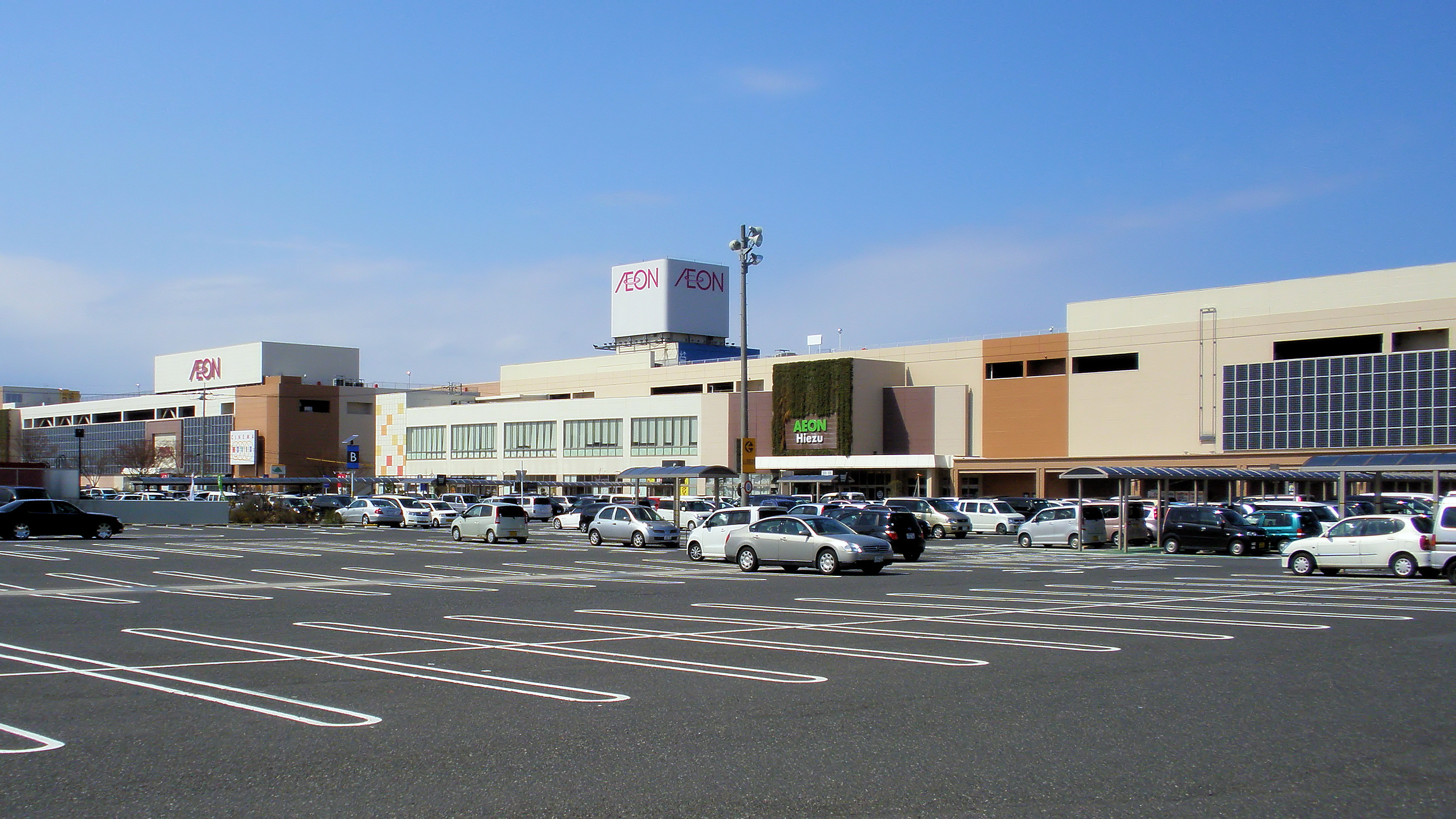 AEON Mall Hiezu, Hiezu, Tottori.